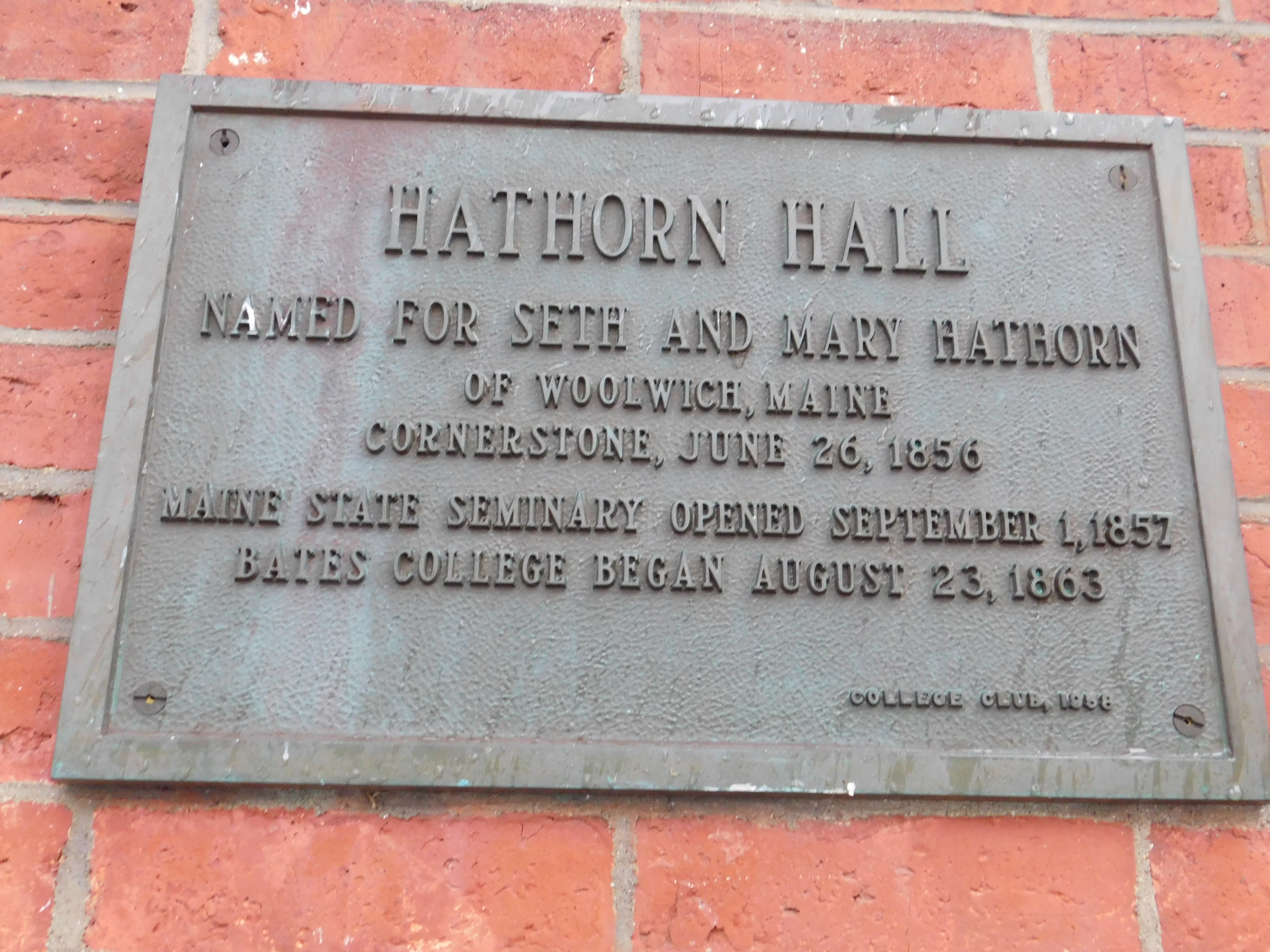 Cornerstone placard of Bates College